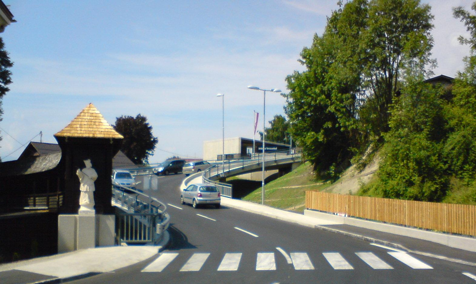 Jenbach, new bridge